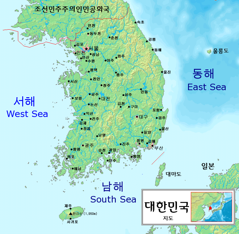 Map of South Korea